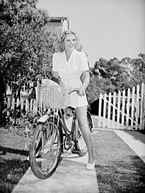 Ilona Massey, Hungarian-American actress. Original caption: "Cotton stockings. Ilona Massey wearing bright red, knee high socks, in ribbed lisle, which have been designed for active sports wear."